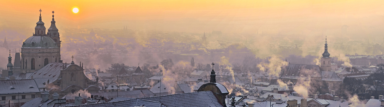 Prague Old Town